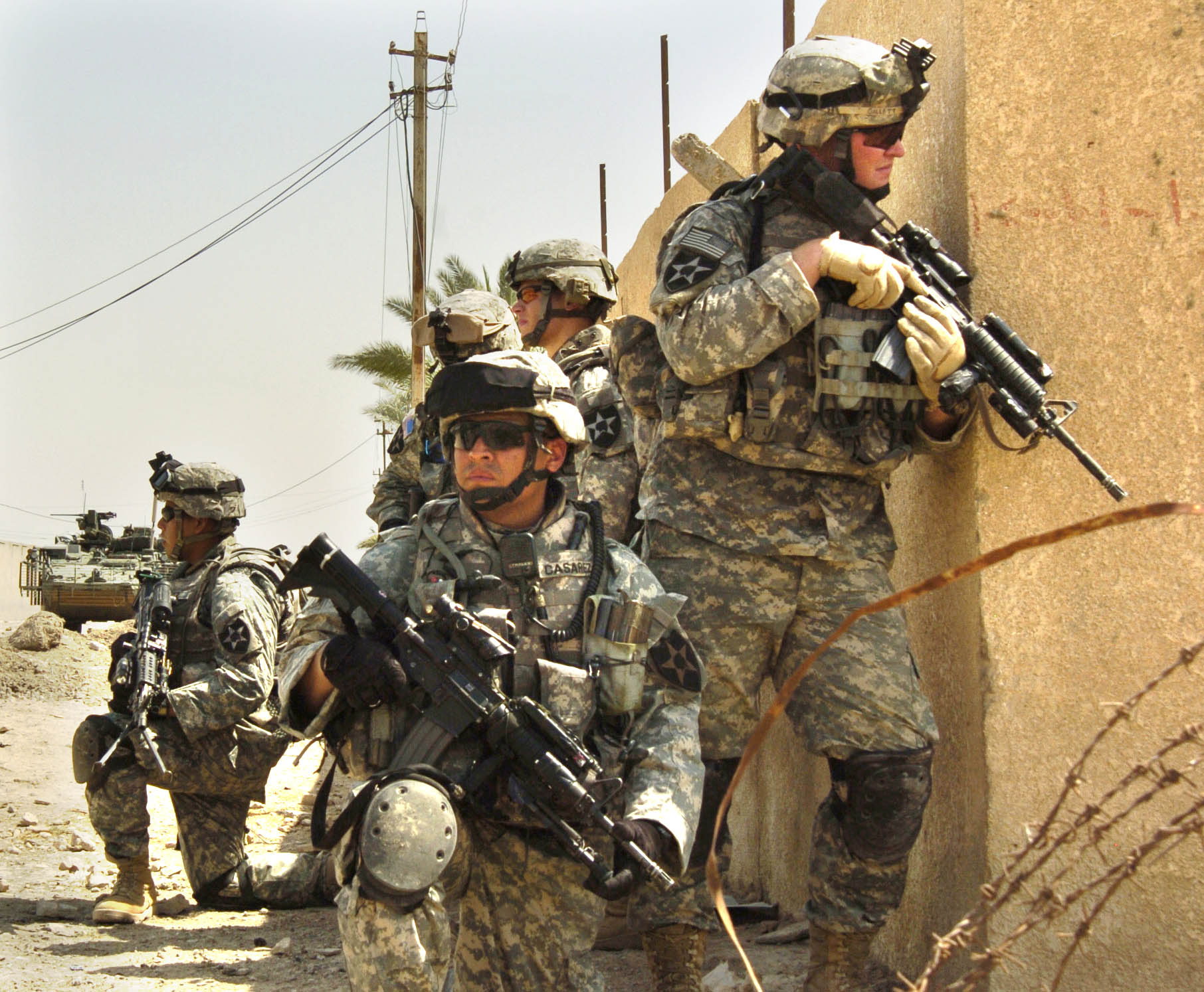 Soldiers from the 2nd Infantry Division conduct an area reconnaissance mission in Baghdad.